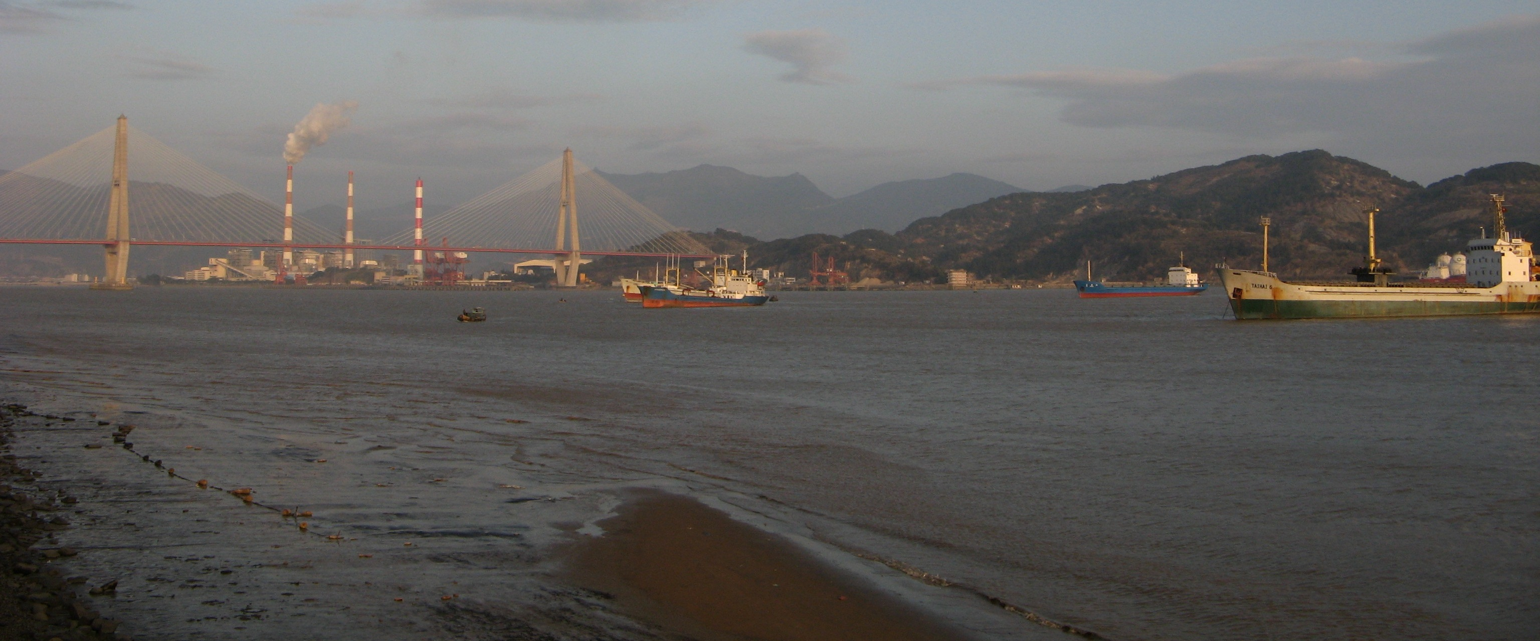 Min River at Mawei, Fuzhou